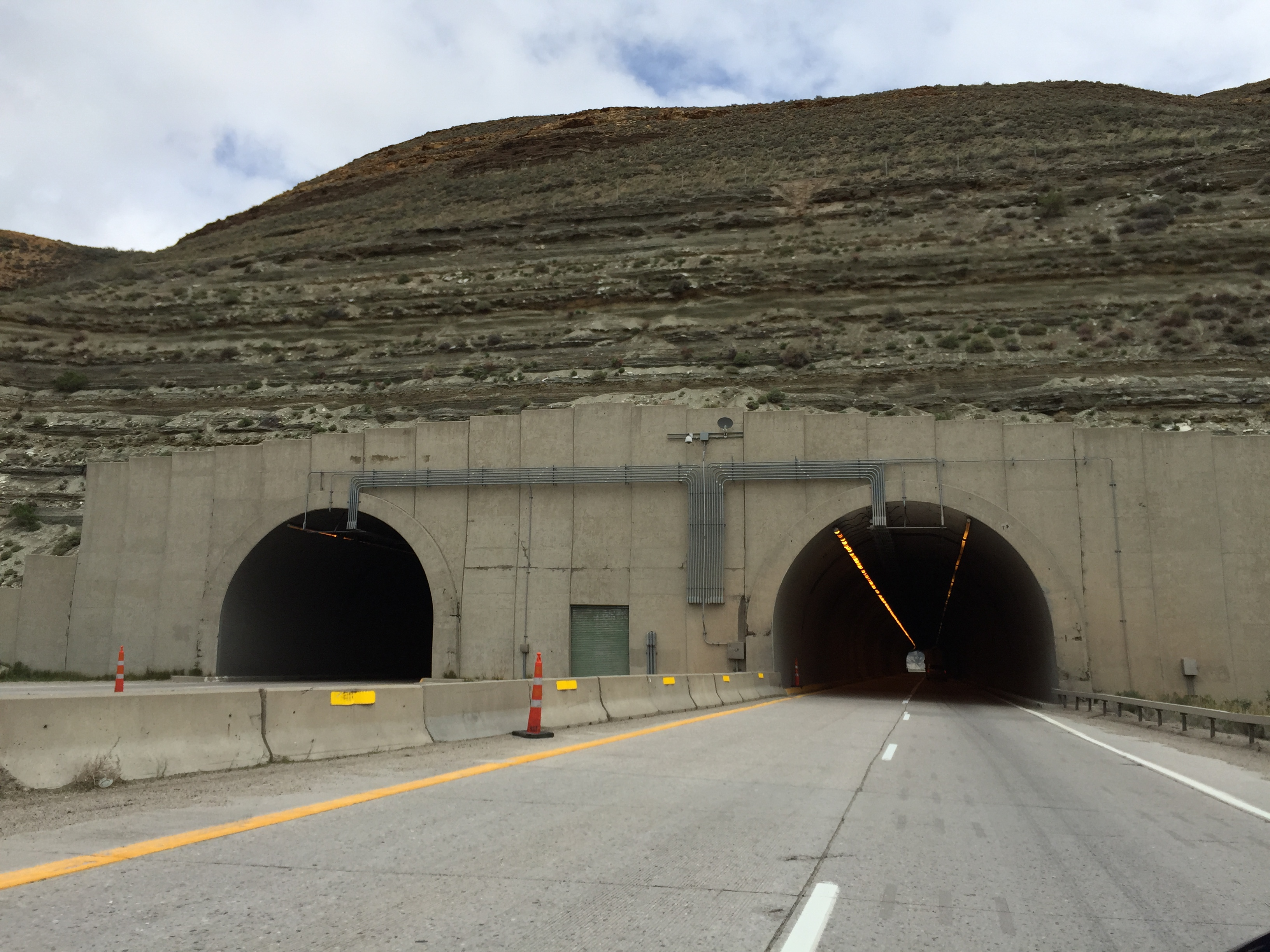 View east along Interstate 80 and U.S. Route 30 in Green River, Wyoming approaching the Green River Tunnel